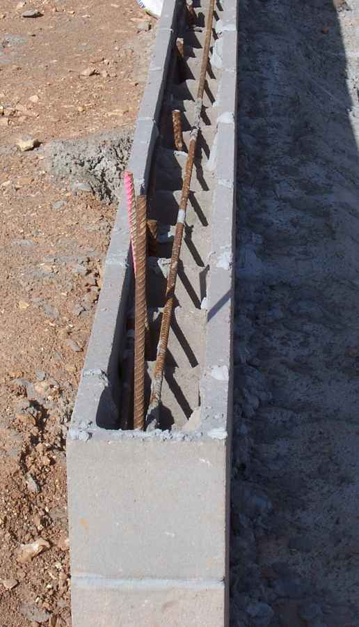 Photograph by Bill Bradley. billbeee| (talk|) 11:30, 3 April 2008 (UTC) Feel free to use it, just credit me as the photographer. You can contact me through my website my website Summary Photograph by Bill Bradley. billbeee (talk) 11:30, 3 April 2008 (UTC) Feel free to use it, just credit me as the photographer. You can contact me through my website my website